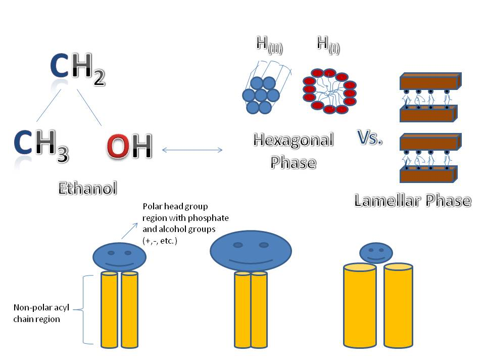 Schematics of how the addition of ethanol induces non-lamellar phases